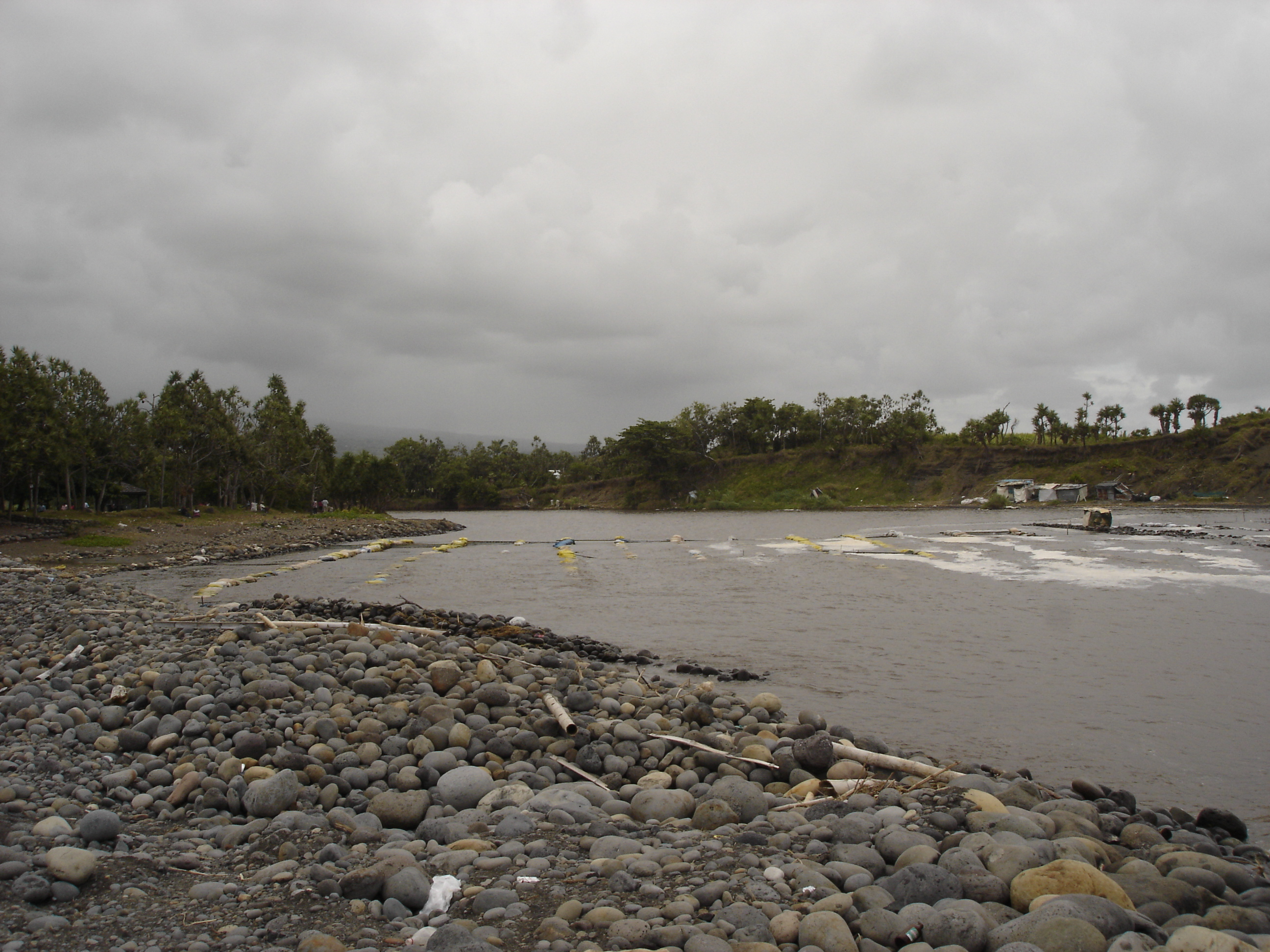 Fishing on the Rivière des Roches, Réunion in November 2004